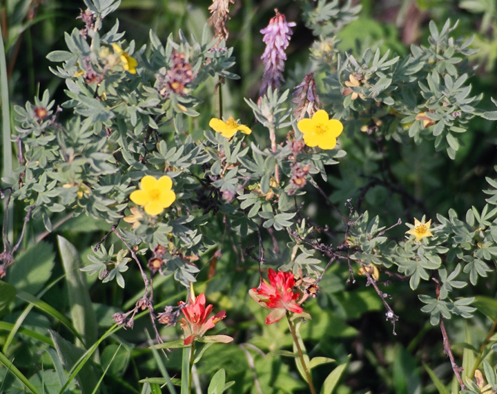 Shrubby cinquefoil (Dasiphora fruticosa), also known as potentilla, is so familiar to Alberta gardeners that it is almost a surprise to see it growing profusely in the wild. This hardy plant blooms from June through September, and though the wild variety is yellow, there are cultivars ranging from white through orange. 2004 D. Windrim Captioned As {}